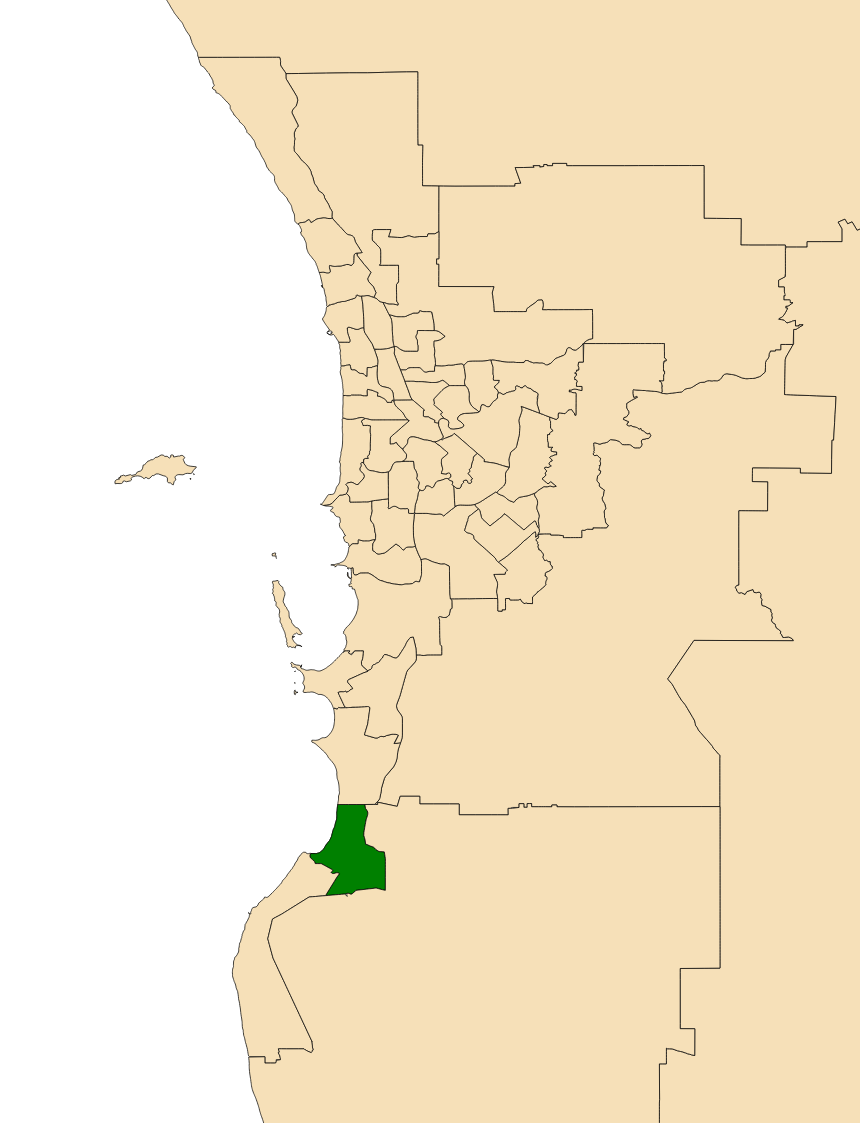 Location of the electoral district of Mandurah in the Perth metropolitan area, Western Australia as of the 2017 WA state election.